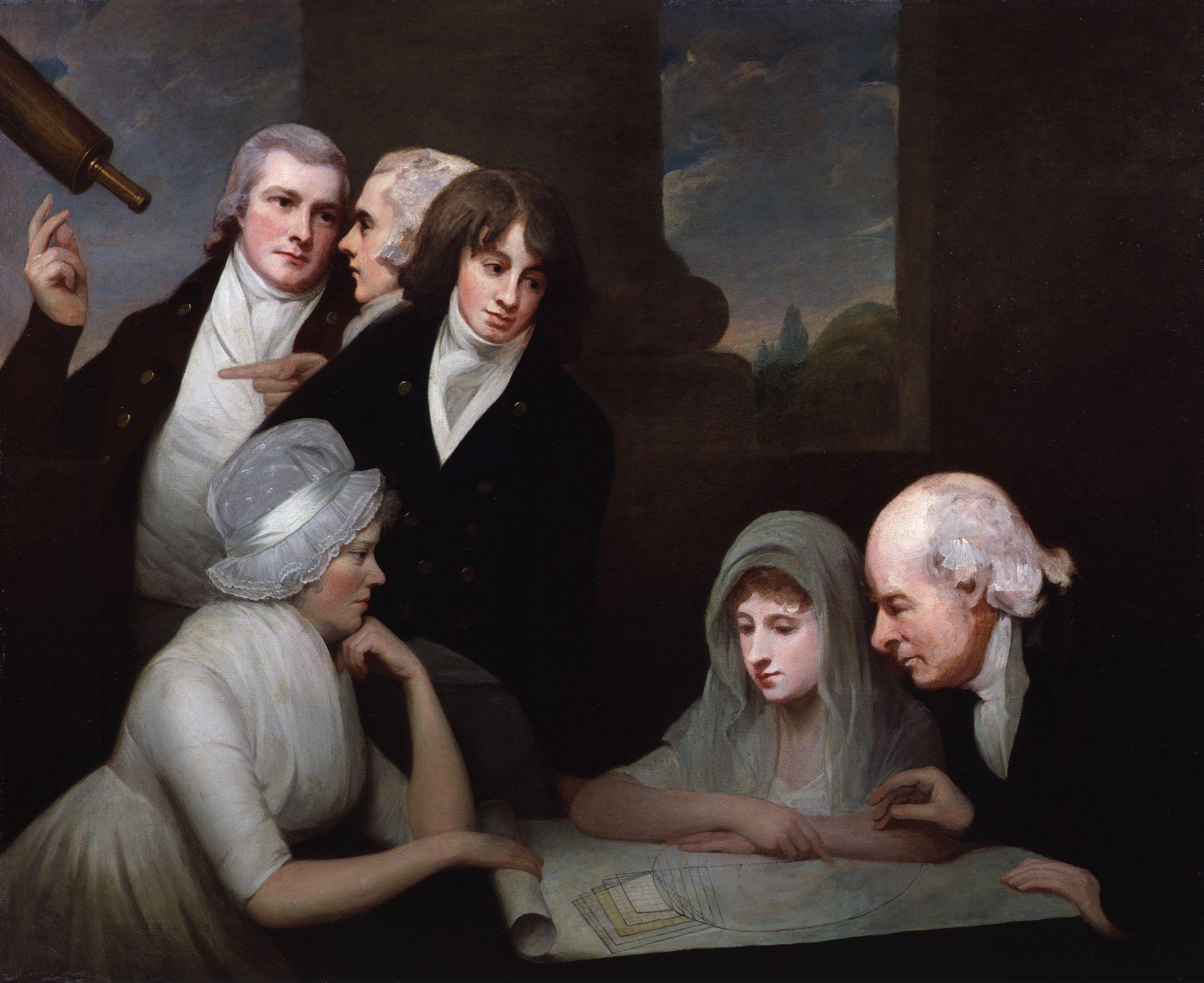 Adam Walker and his family, by George Romney (died 1802). All images in this batch have been confirmed as author died before 1939 according to the official death date listed by the NPG.